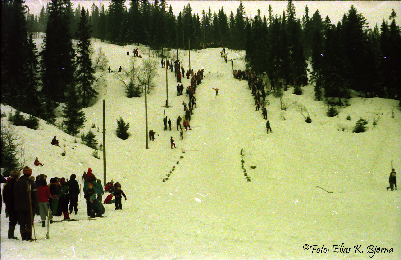 Første hopprenn 1975. Foto Elias K. Bjørnå